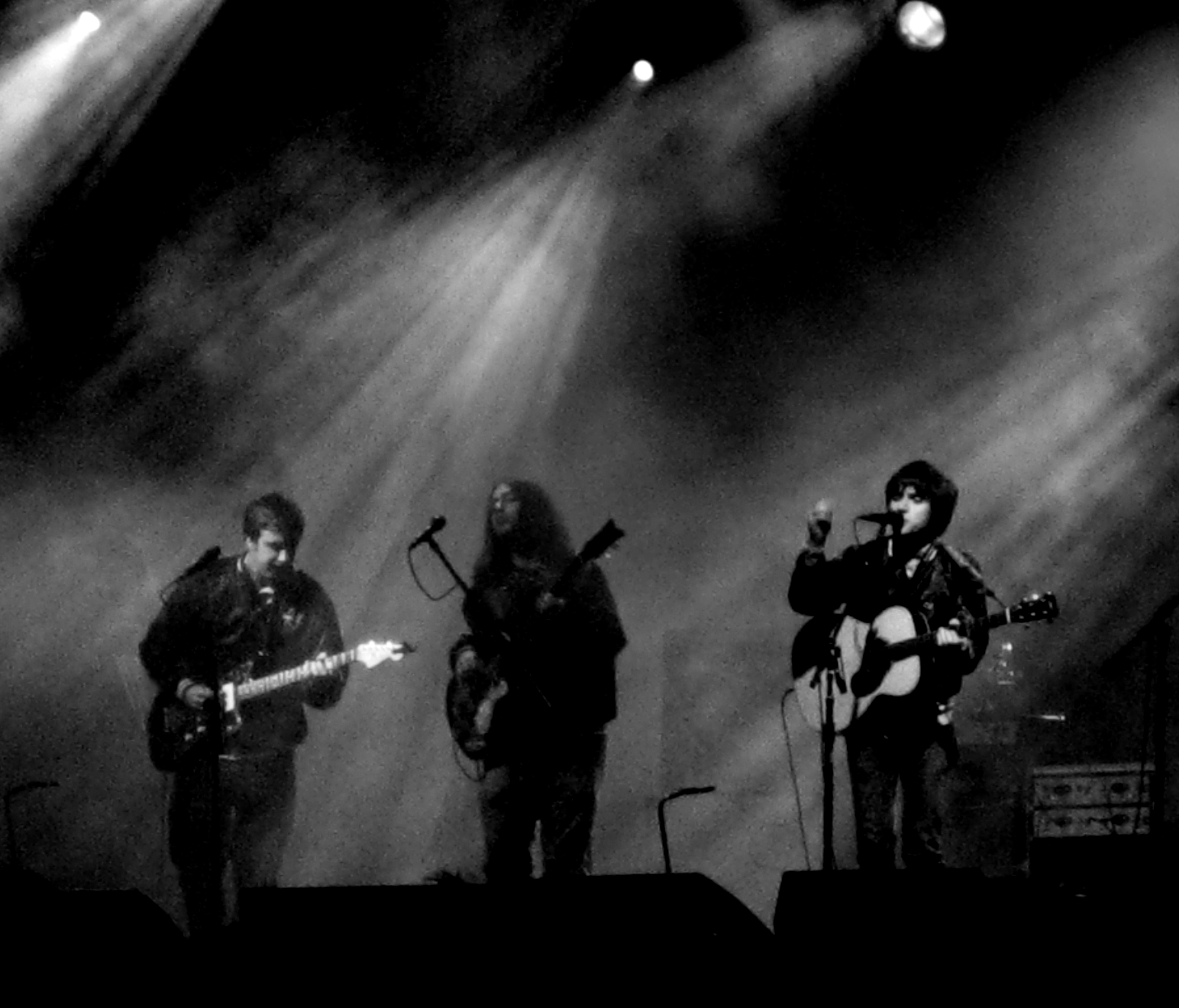 Conor Oberst & The Mystic Valley Band performing live at the Leeds Festival, 22nd August 2008.